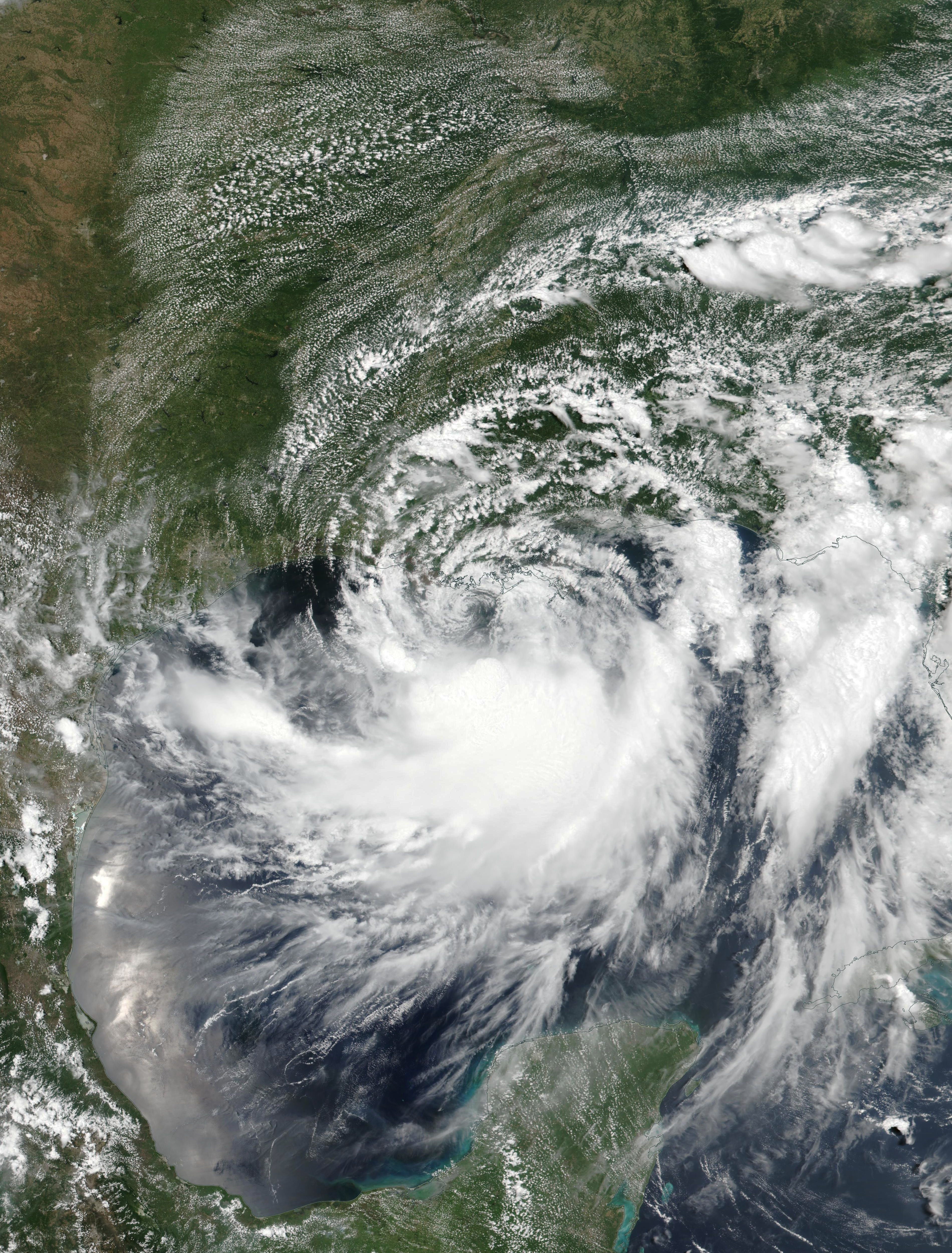 Tropical Storm Barry off the south coast of Louisiana on July 12, 2019